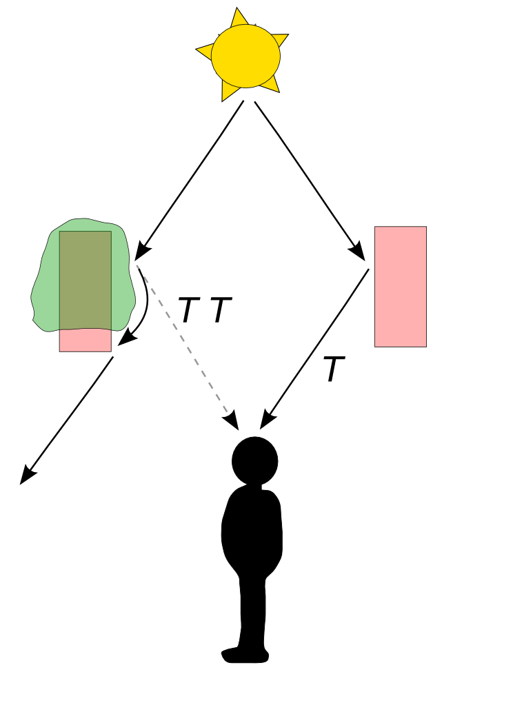 Illustration of how invisible cloak works